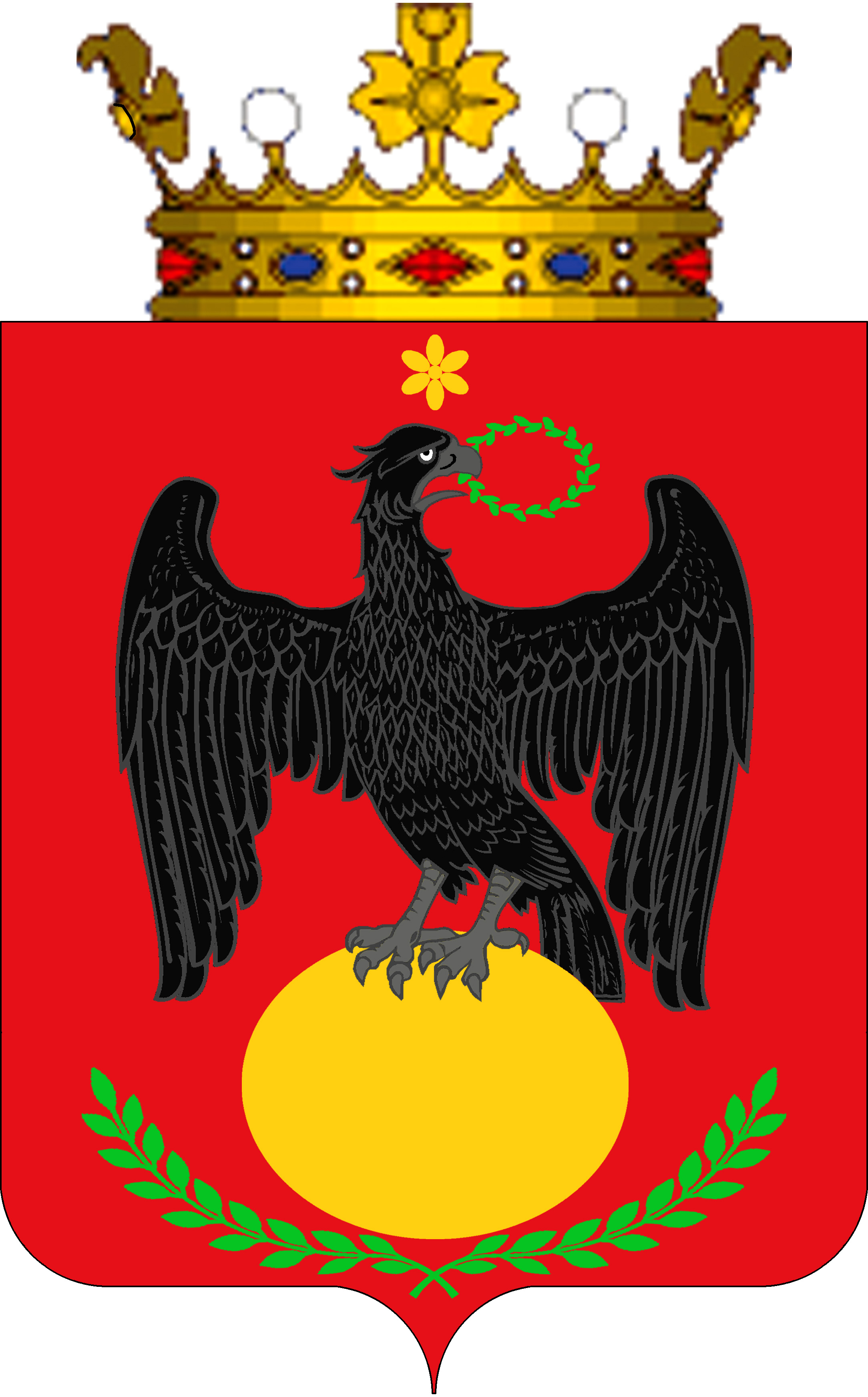 Coat of arms of the family Rascanu